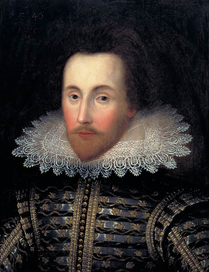 Portrait originally believed to have been painted by Cornelis Janssen. Now believed to be by an i=unknown artist, possibly depicting Sir Thomas Overbury but highly likely to be based on the Cobbe portrait likely depicting Shakespeare. Ironically this portrait was also once believed to be of William Shakespeare.